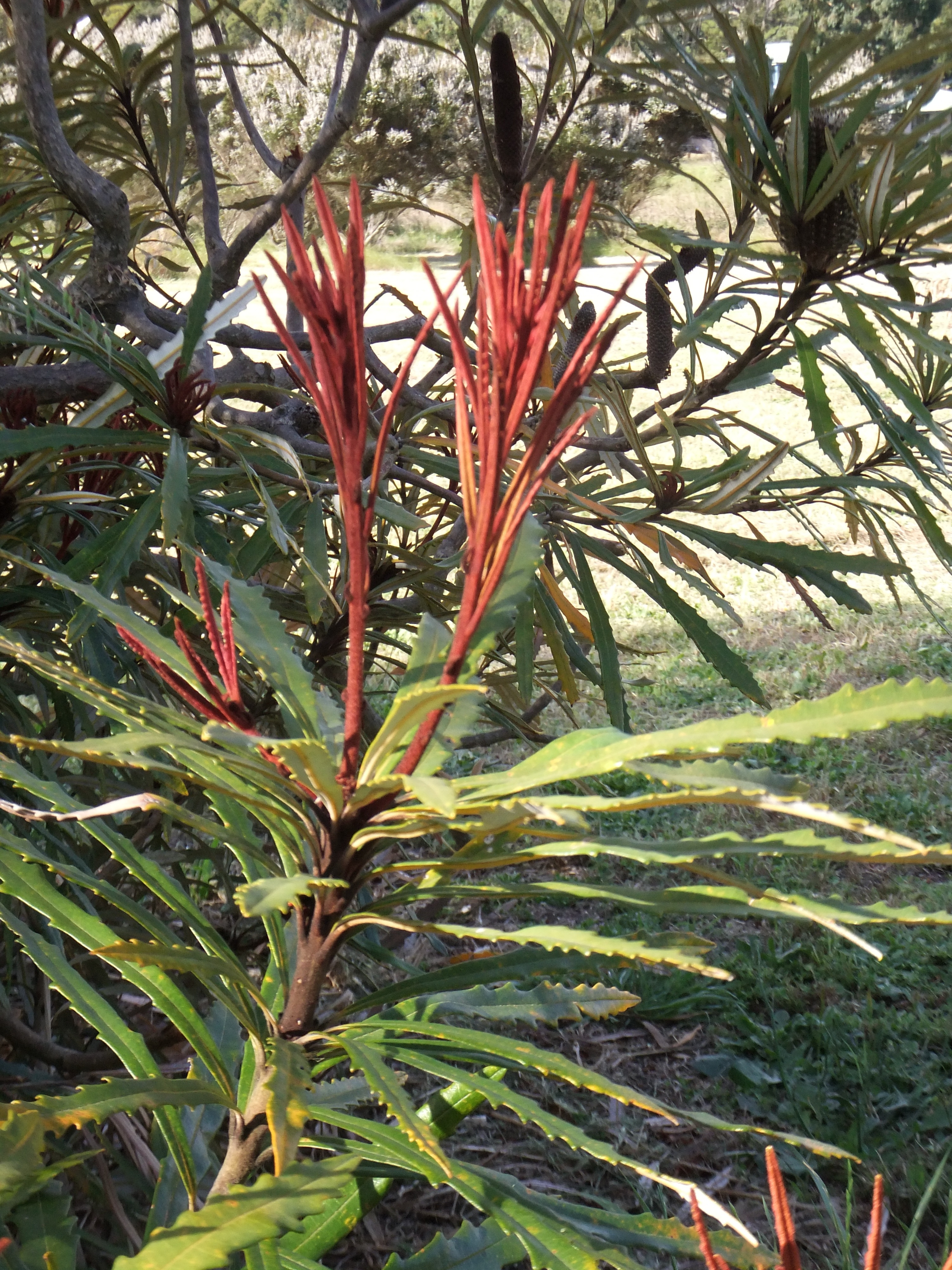 Leaves and new growth of Banksia plagiocarpa, growing at the 'Banksia Farm' of Mount Barker, Western Australia.